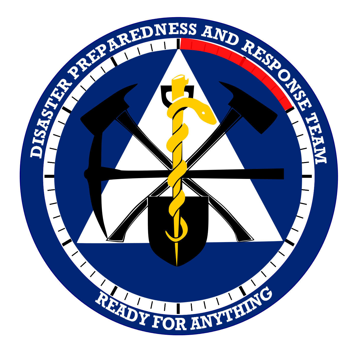 DPART SAR Logo